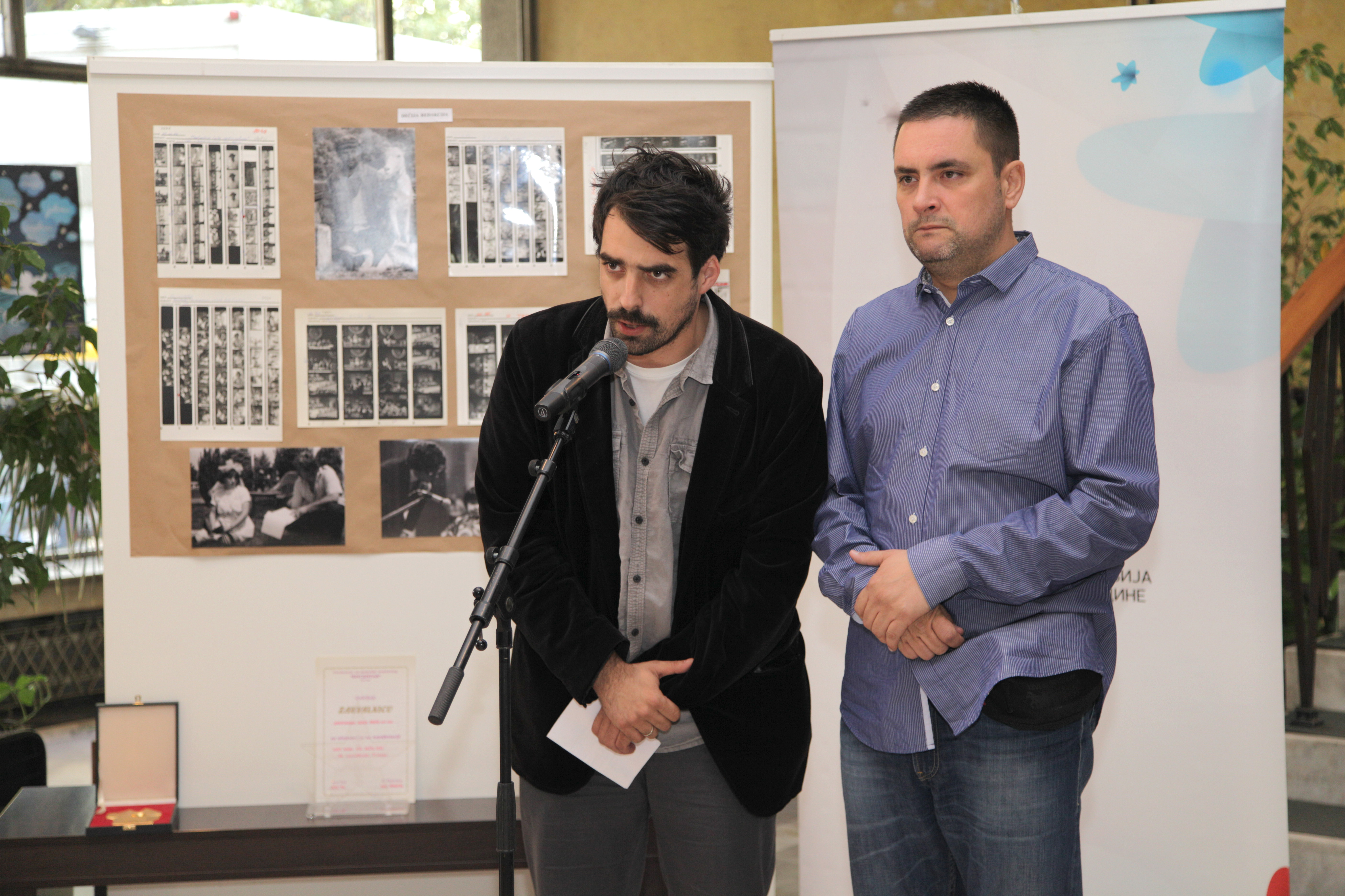 Nikola Škorić i Dimitrije Banjac